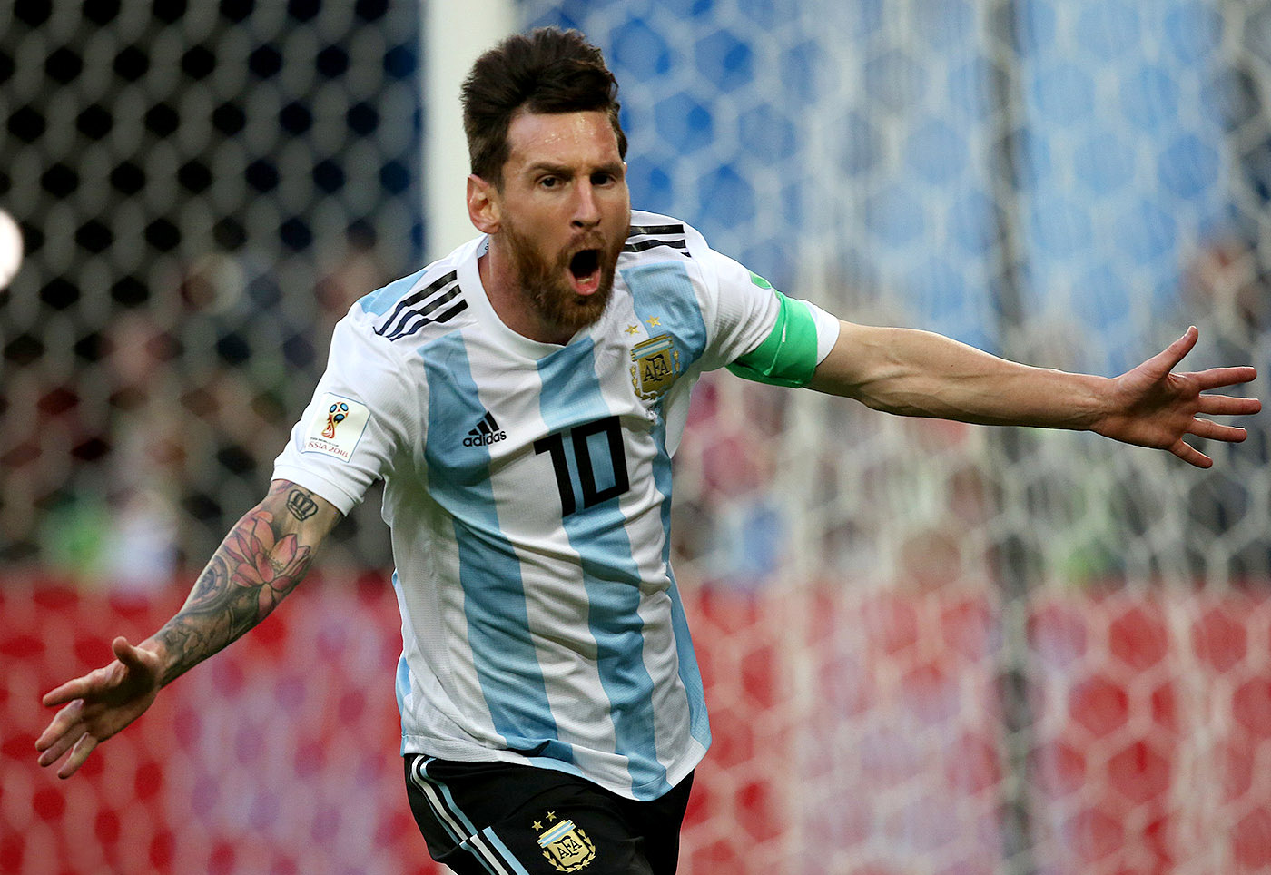 Messi after scoring the opening goal against Nigeria